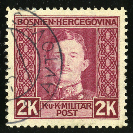 Stamp of Bosnia-Herzegovina, 2 Kronen, engraved issue 1917 with Emperor Charles, cancelled at AVTOVAC.